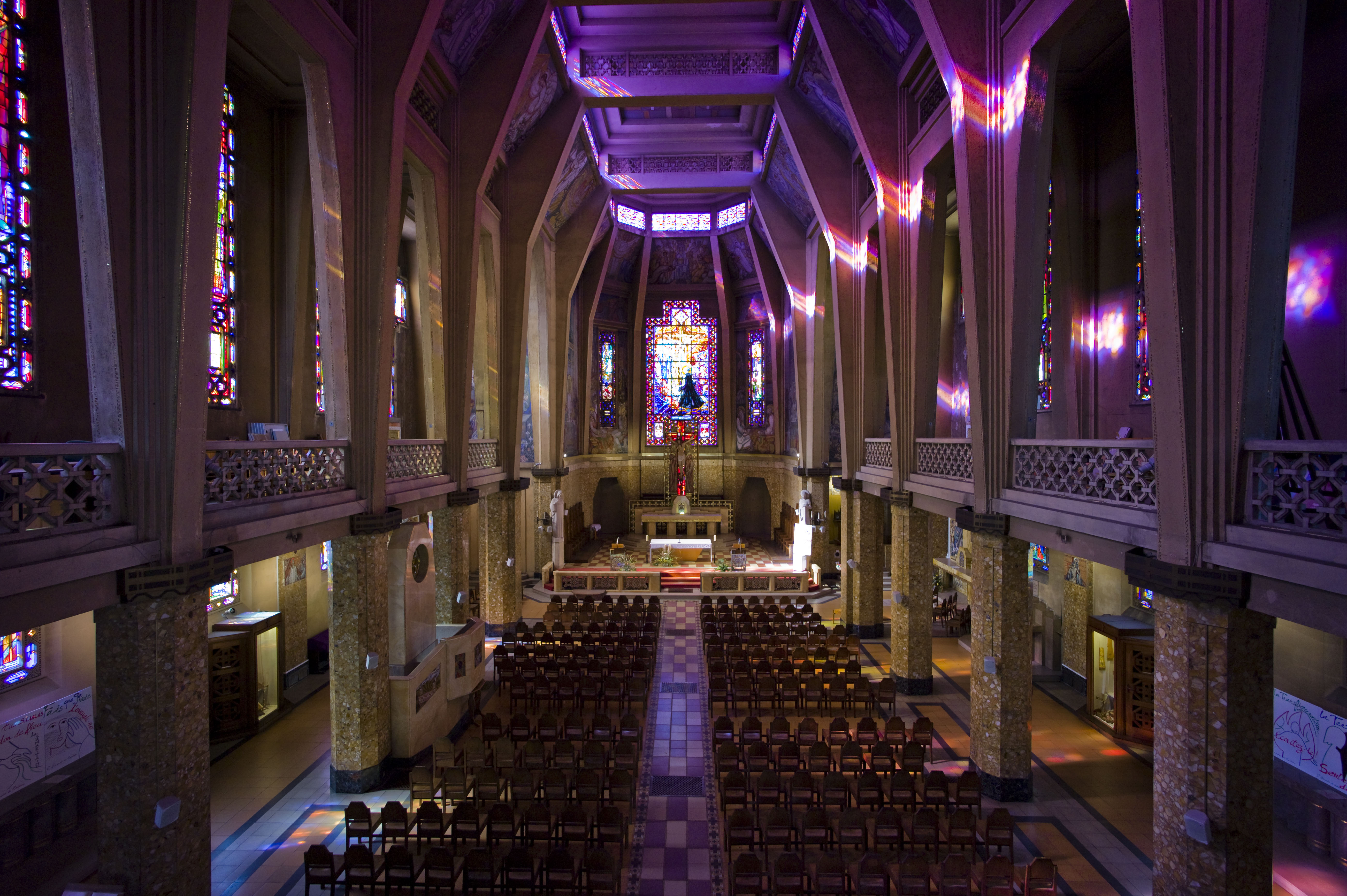 Inside the church St John Bosco in Paris, France. Art Déco Style